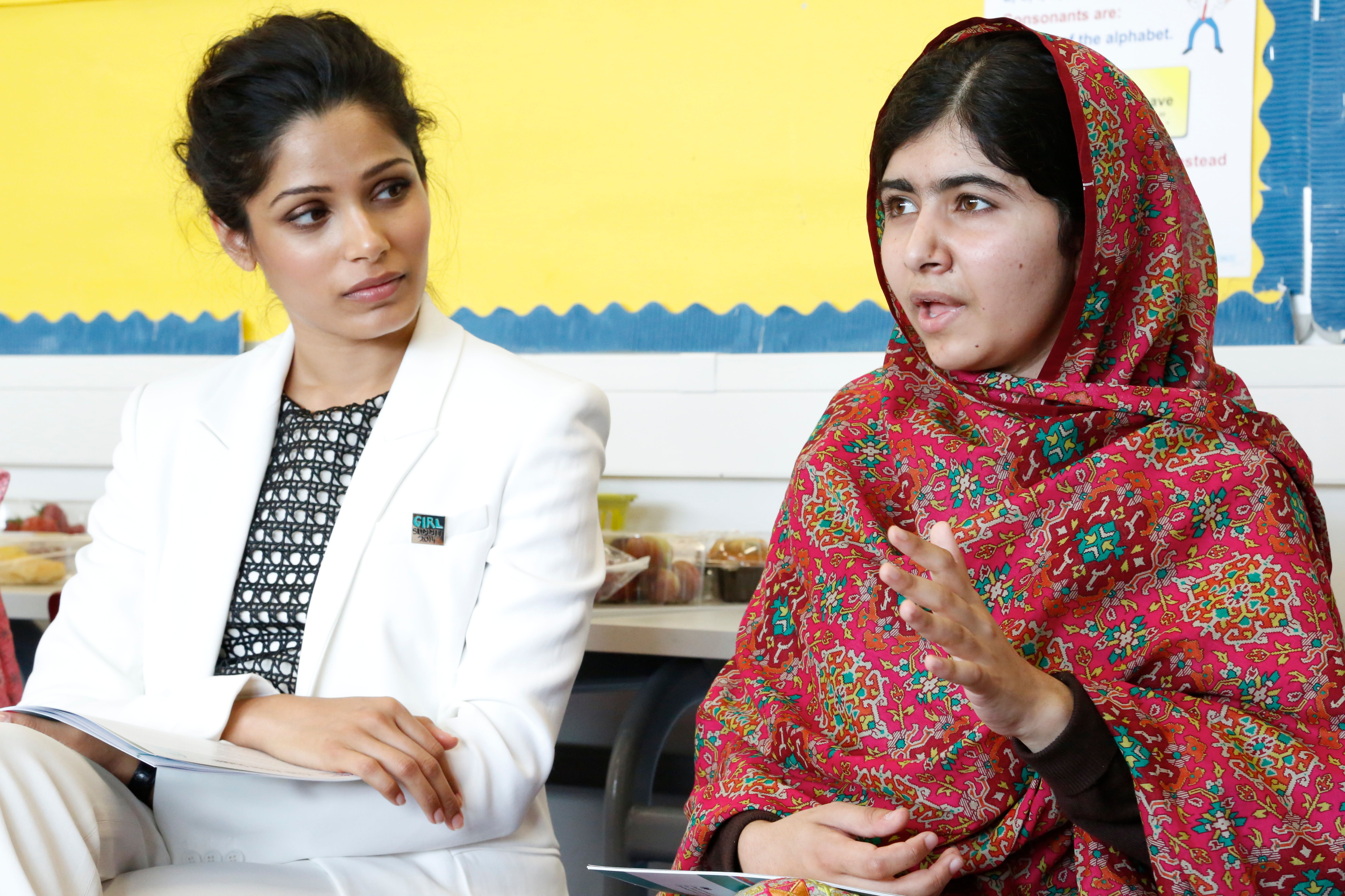 "Let's educate the girl and make her independent, she can become whatever she wants to," inspiring words from Malala at the Girl Summit. She's seen here with actress and Plan International Girls' Rights Ambassador, Freida Pinto, discussing girls' rights with the Youth For Change panel. Picture: Jessica Lea/Department for International Development